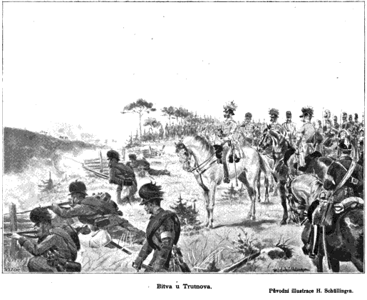 Battle of Trautenau during Austro-Prussian War. An illustration to book Válka z roku 1866 v Čechách, její vznik, děje a následky (1866 War in Bohemia - its origins, events and consequences) by Servác Heller (1845 - 1922)